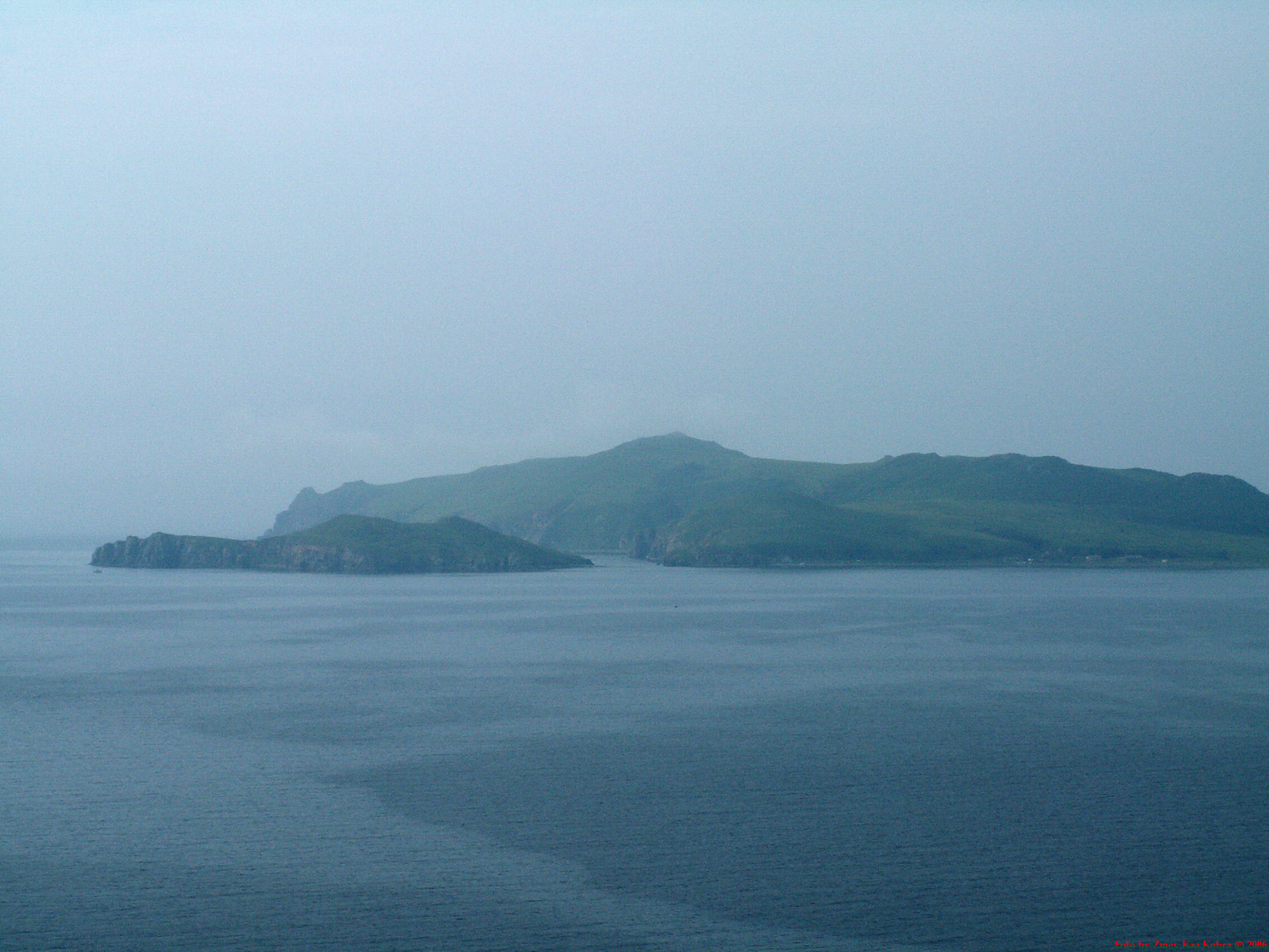 Northeast of Reyneke Island, Primorsky Krai